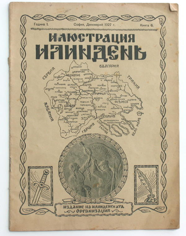 The cover from the "Ilustration Ilinden" - magazine, with a map of independent Macedonia, bordering with independent Thrace.